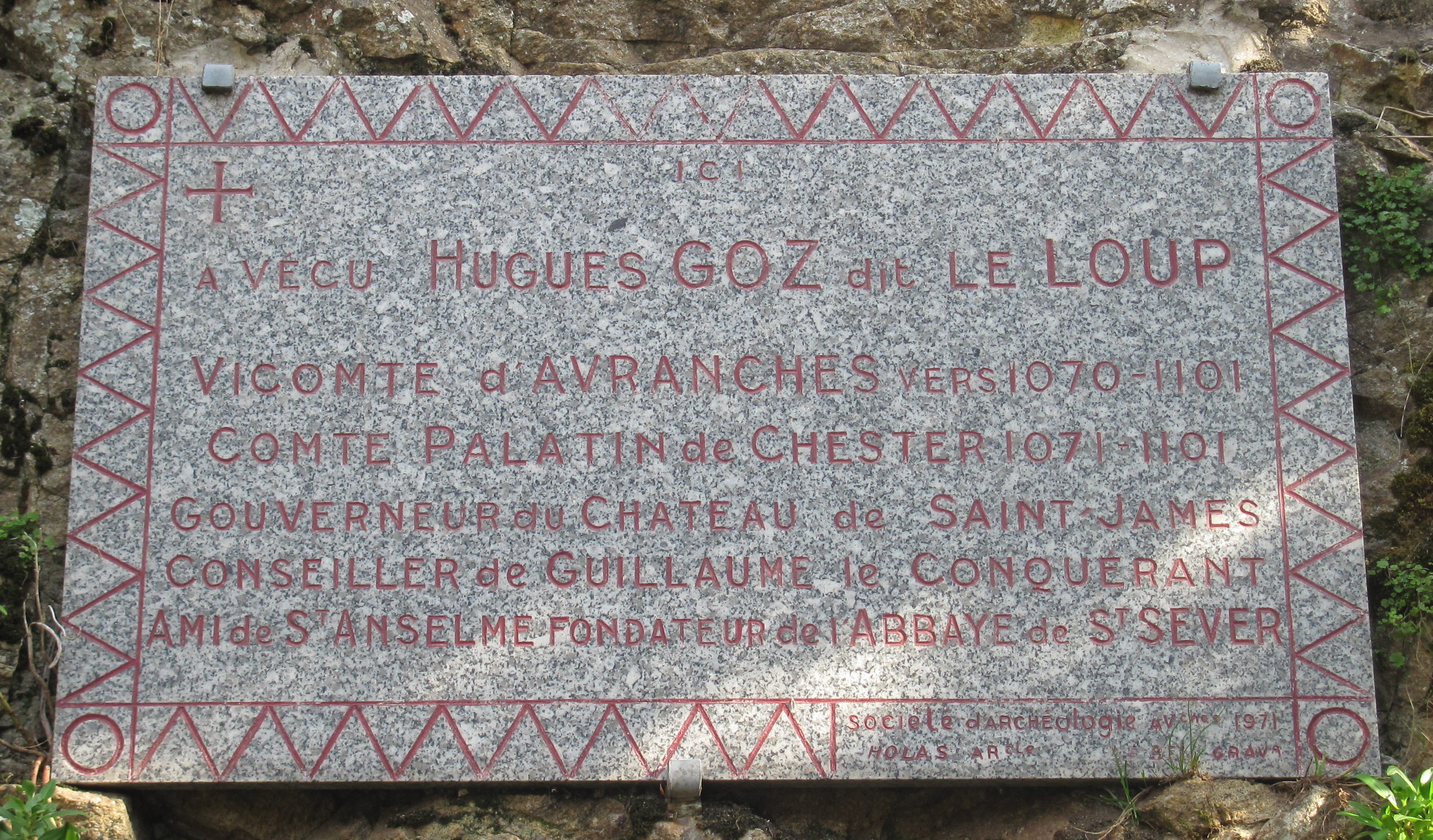 Avranches, 20 October 2010.